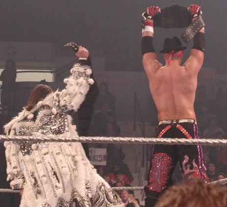 Morrison and Miz, cropped